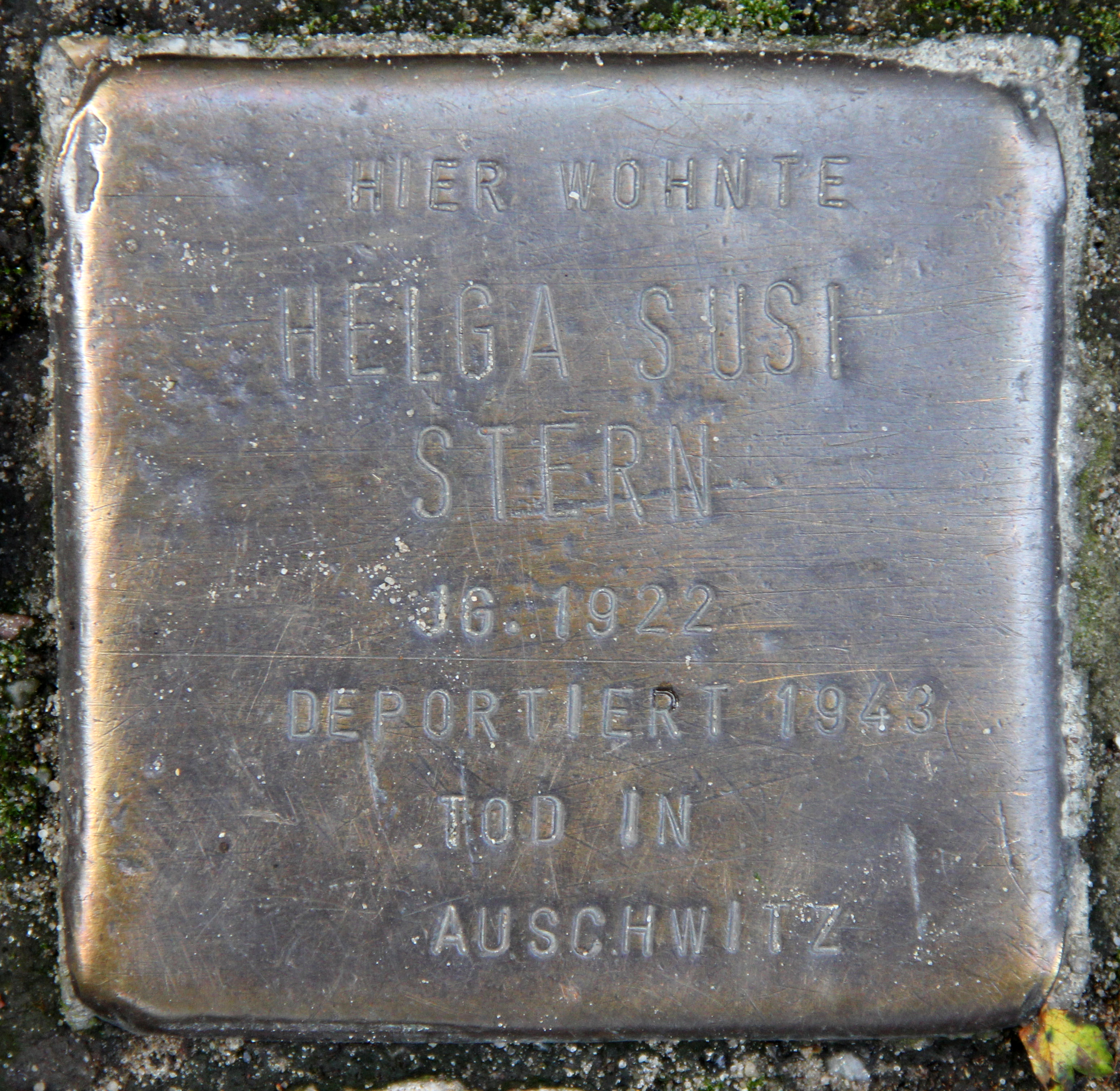 "Stolperstein" (stumbling block), Helga Susi Stern, Fontanepromenade 5, Berlin-Kreuzberg, Germany